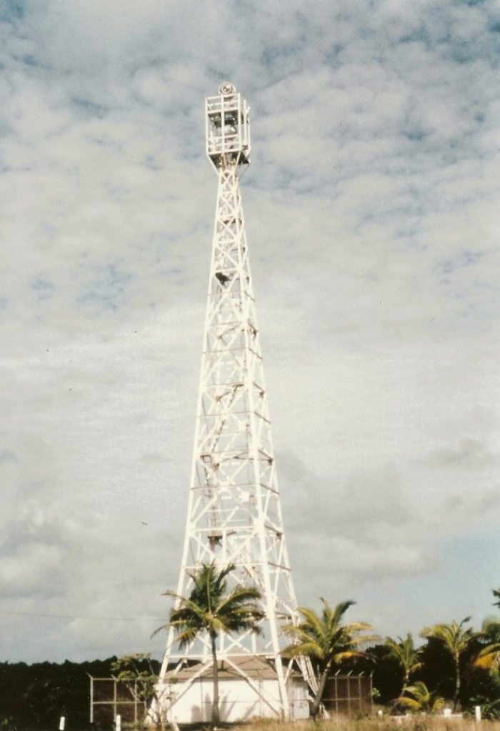 Photograph of Cape Kumukahi Light